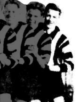 Photograph of Bill Crane in 1943